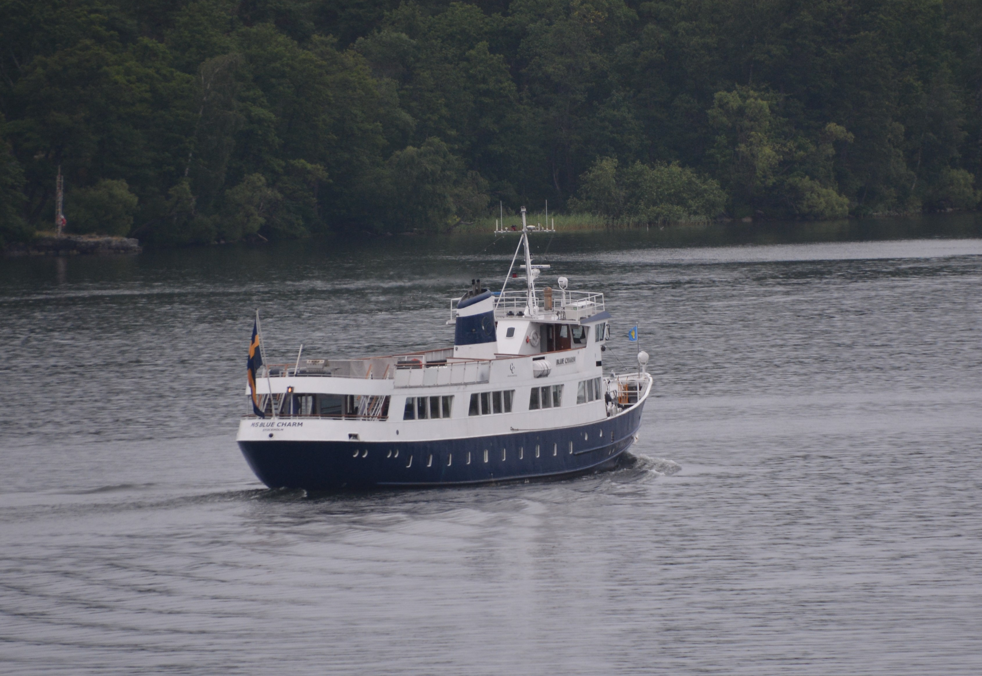 M/S Blue Charm, Photo taken in Stockholm on Lake Mälaren